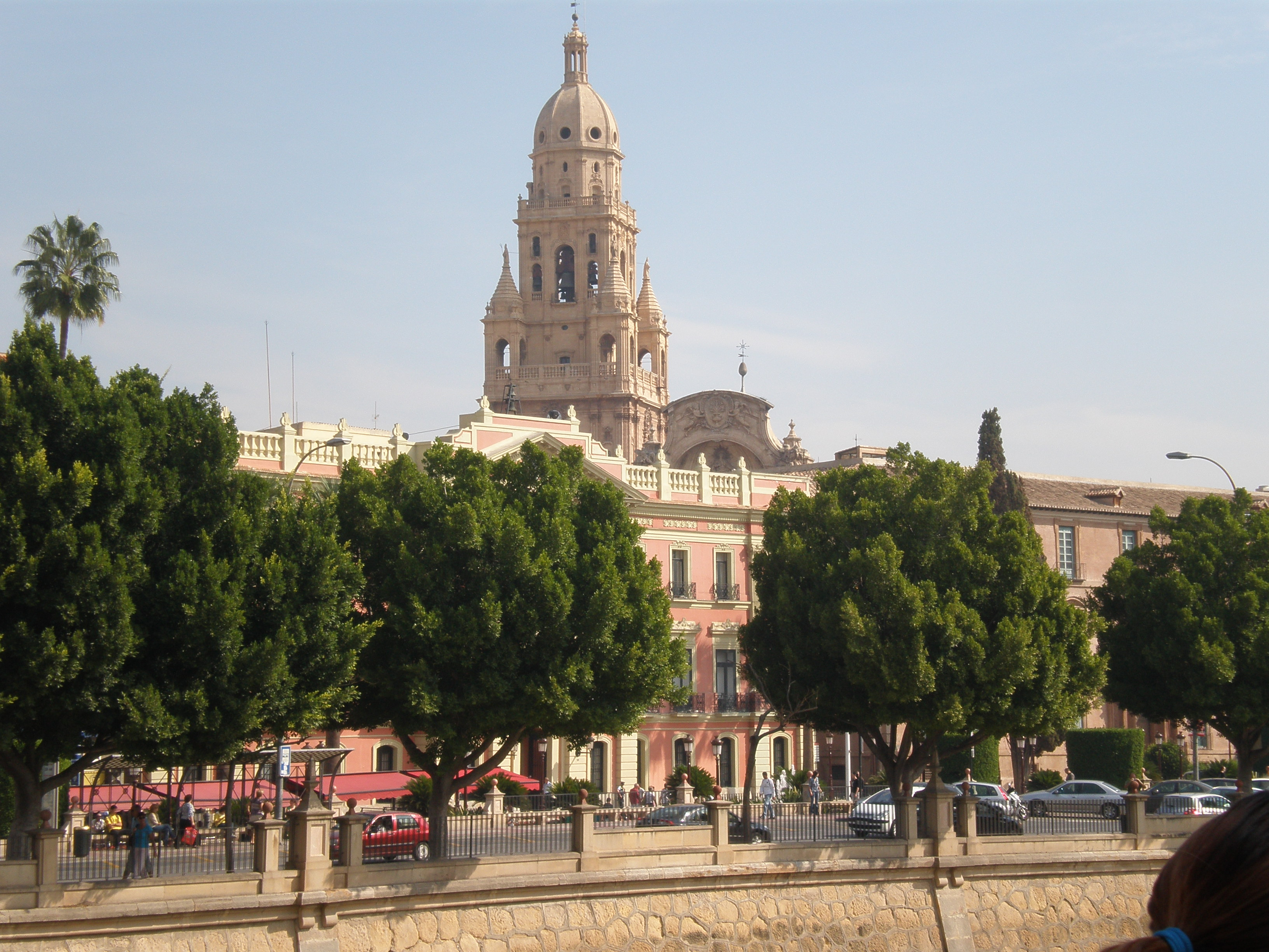 Murcia's river front, by the river Segura and the Cathedral's belfry.